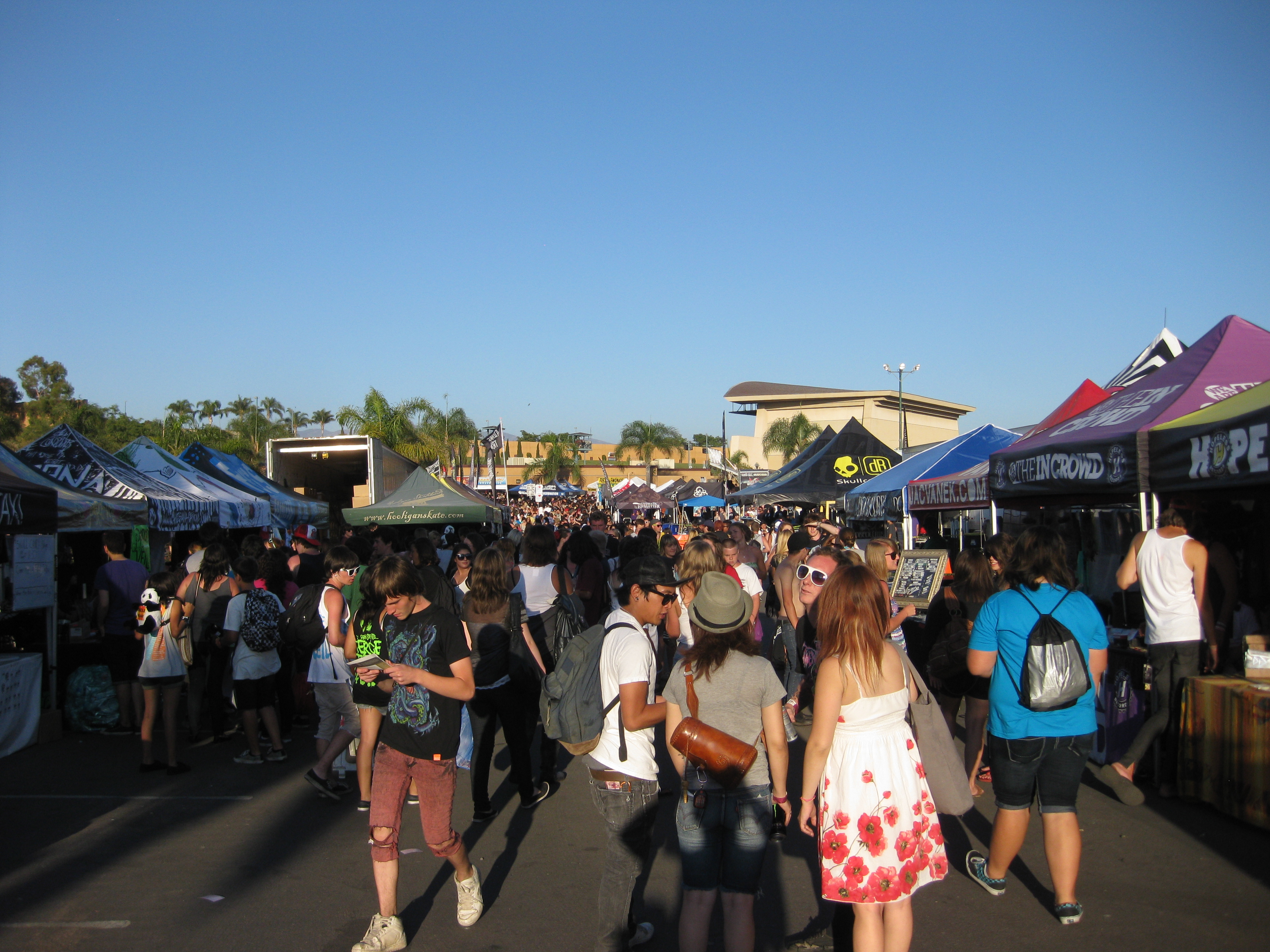 Artist, label, and vendor tents at the Warped Tour at the Cricket Wireless Amphitheatre in Chula Vista, California on August 10, 2010. Illustrates the festival nature of the tour, including its various merchandise and signing booths.